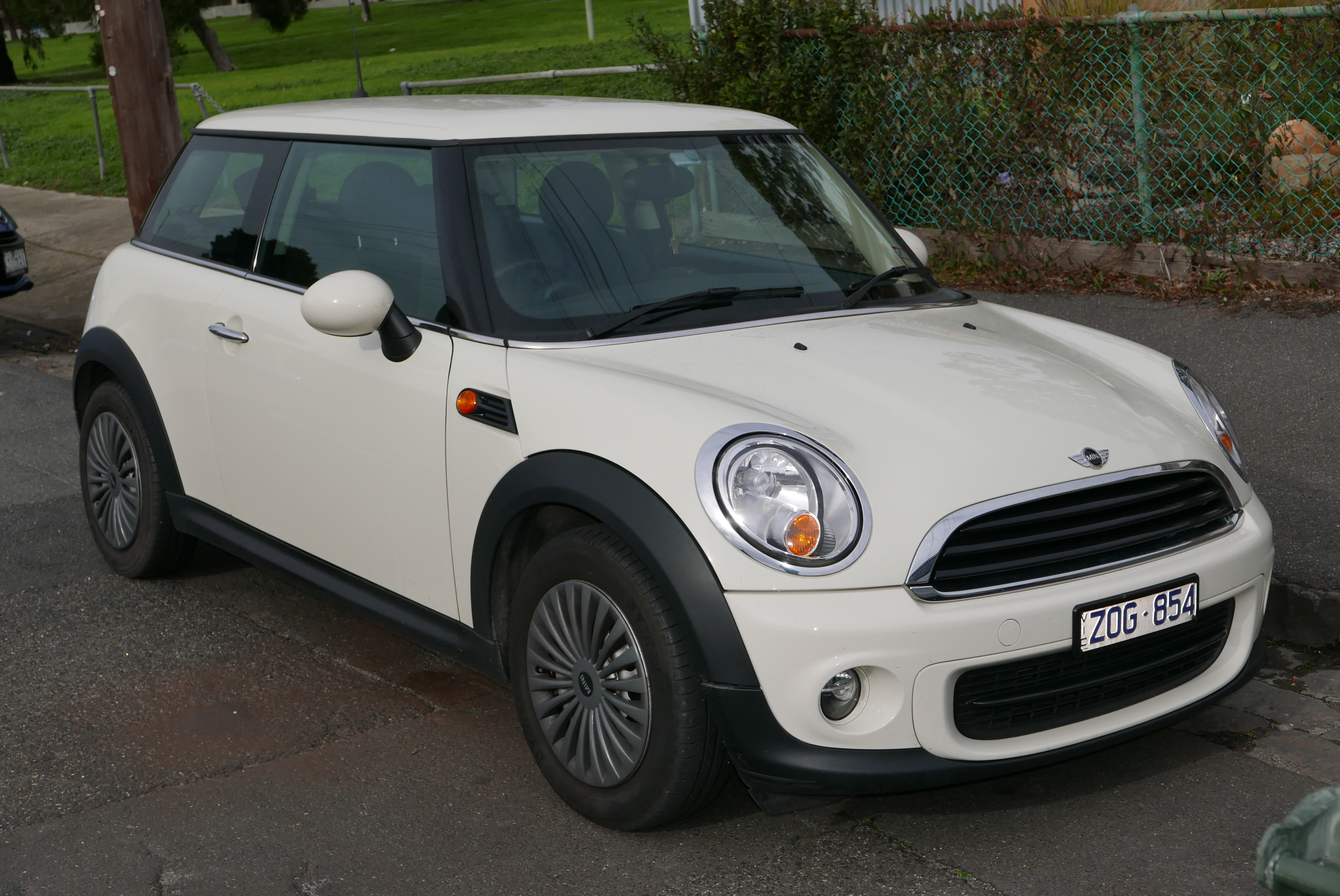 2013 Mini Hatch (R56 LCI) Ray hatchback. Photographed in Brunswick East, Victoria, Australia. Vehicle registration enquiry resultsJurisdictionVictoriaRegistrationZOG854Chassis codeWMWSR32000T510504Engine codeB183J358Compliance date2013-01Year of manufacture2013